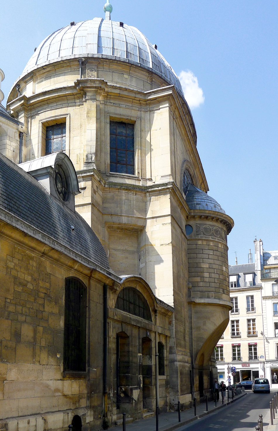 Chapelle de la Vierge ("Lady Chapel") of Saint-Sulpice Church - Paris